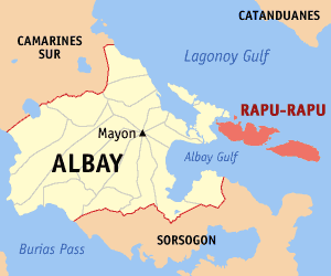 Locator map of Rapu-Rapu in Albay, Philippines.